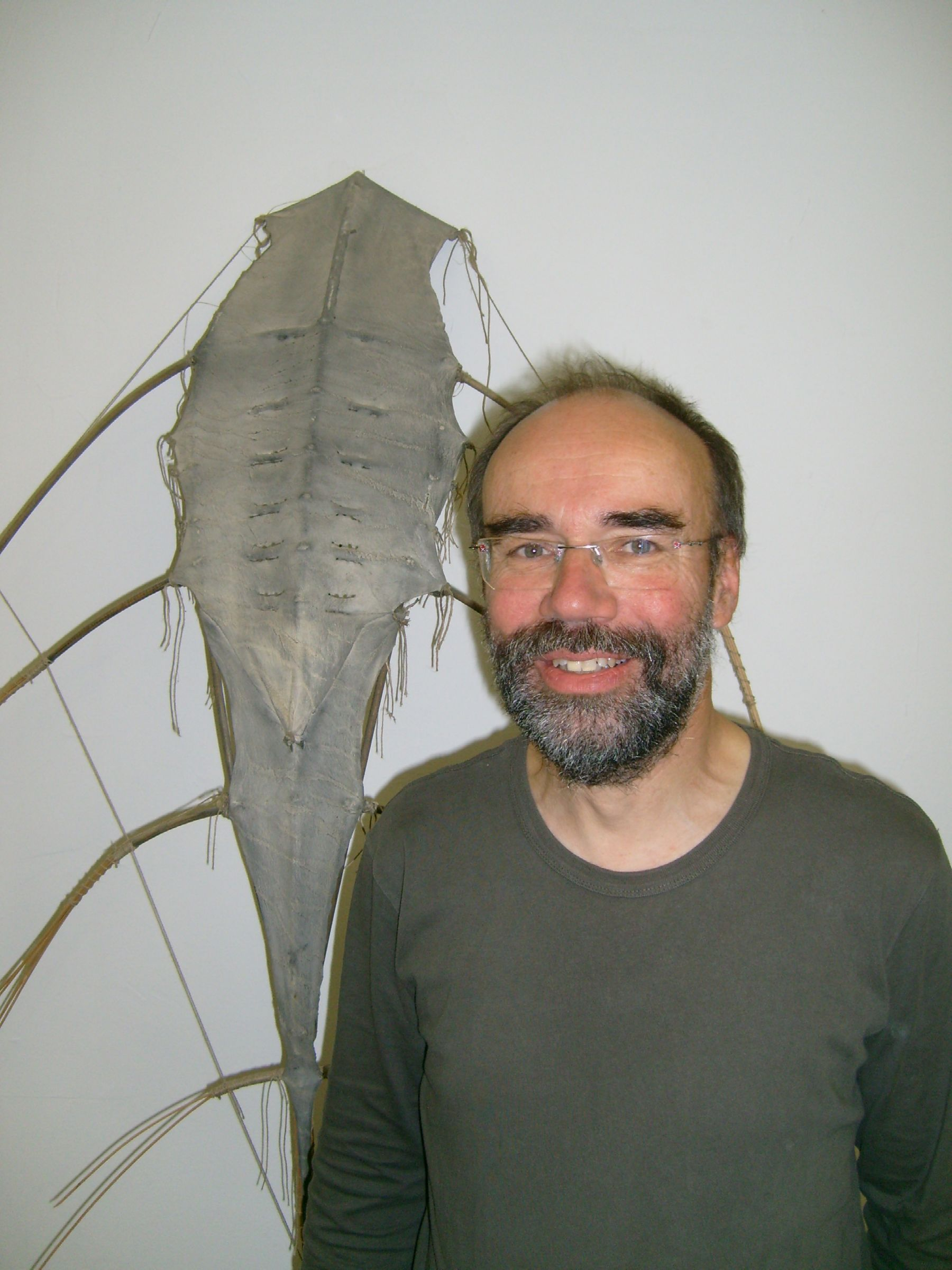 The Luxembourg artist Gérard Claude. Permission granted on October 17th 2008 by artist Gérard Claude to display himself with piece of art on wikipedia